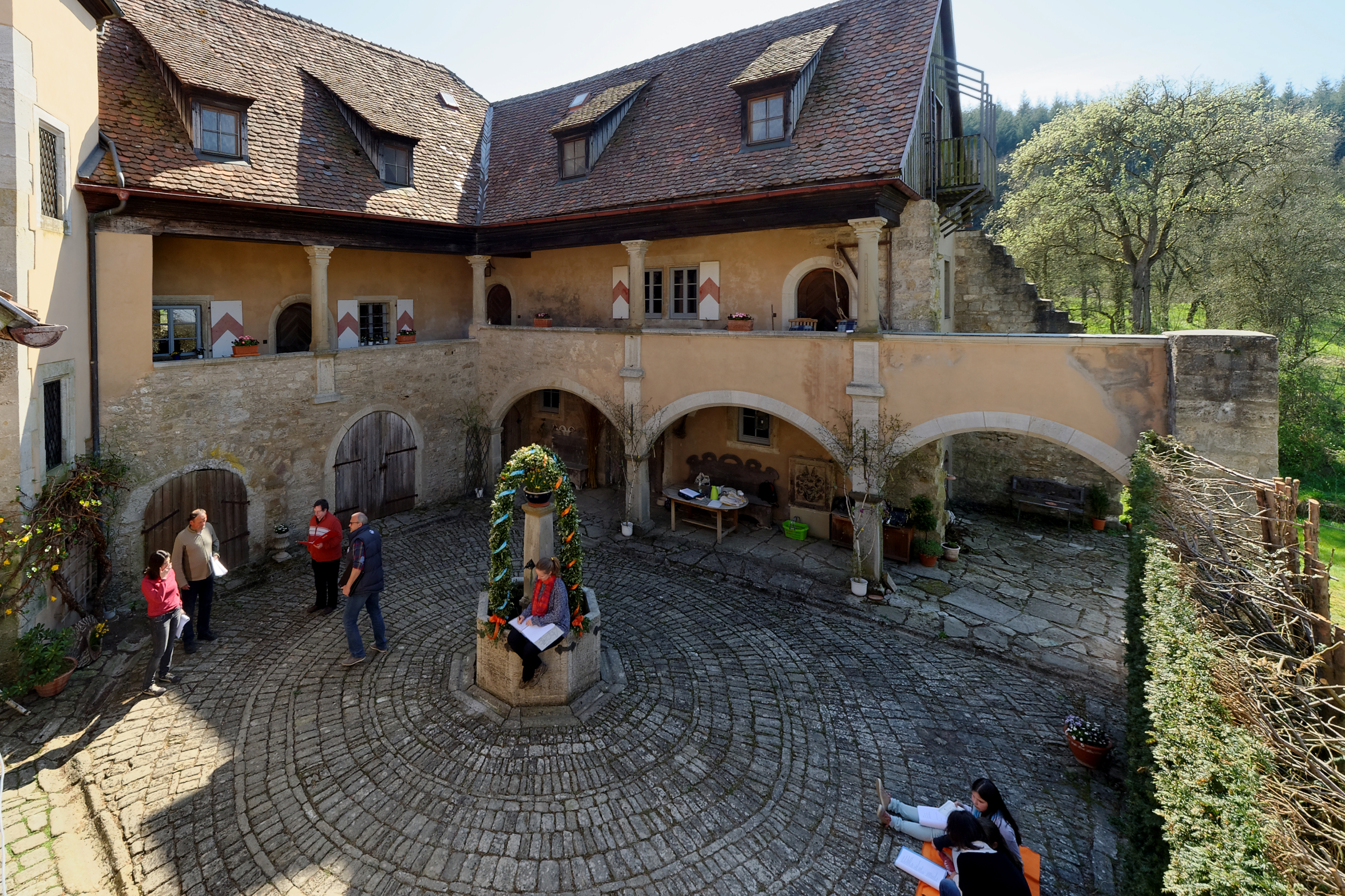 The Geyer-Castle in Creglingen Reinsbronn.